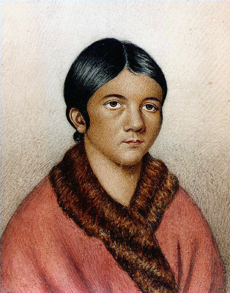 A miniature portrait titled "A female Red Indian of Newfoundland" which some sources date to 1841. It is believed to be a portrait of Shanawdithit, a Beothuk woman. Most likely a painted copy of Portrait of Demasduit (Mary March), by Lady Henrietta Hamilton (1819, see File:Demasduit.jpg). Although sometimes attributed to William Gosse, the painter was more likely naturalist Philip Henry Gosse (see also Mullen, Gary R., "Philip Henry Gosse," Encyclopedia of Alabama, 26 August 2008, retrieved 9 September 2011)